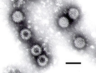 Note the wheel-like appearance of some of the rotavirus particles. The observance of such particles gave the virus its name ('rota' being the Latin word meaning wheel). Bar = 100 nanometers. Source: Cell culture. Method: Negative-stain Transmission Electron Microscopy